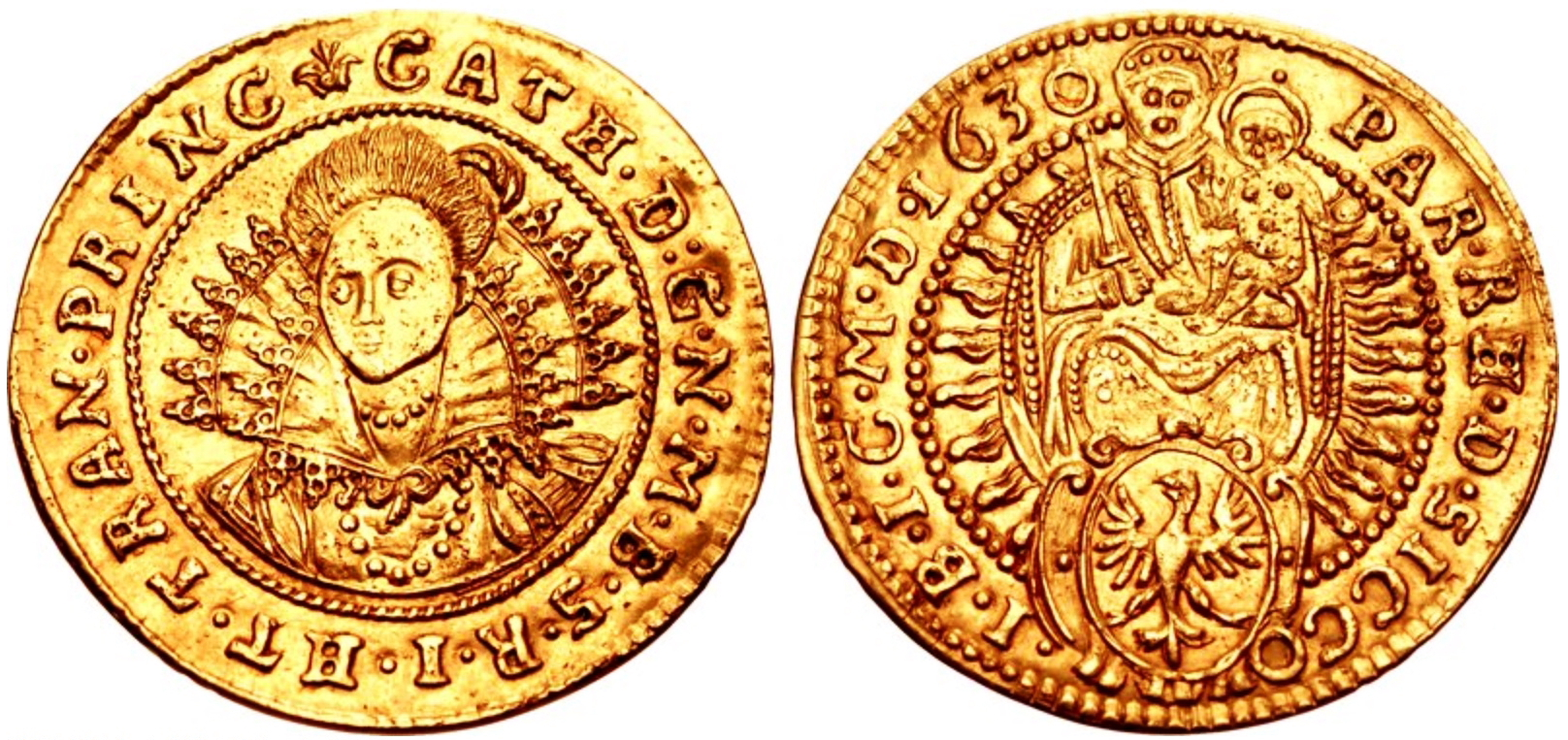 Ducat of Catherine of Brandenburg minted in 1630 (22 mm, 3.47 g)